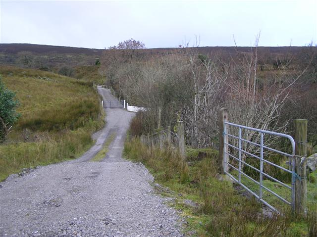 Monydoo or Tonycrom The road is heading westwards